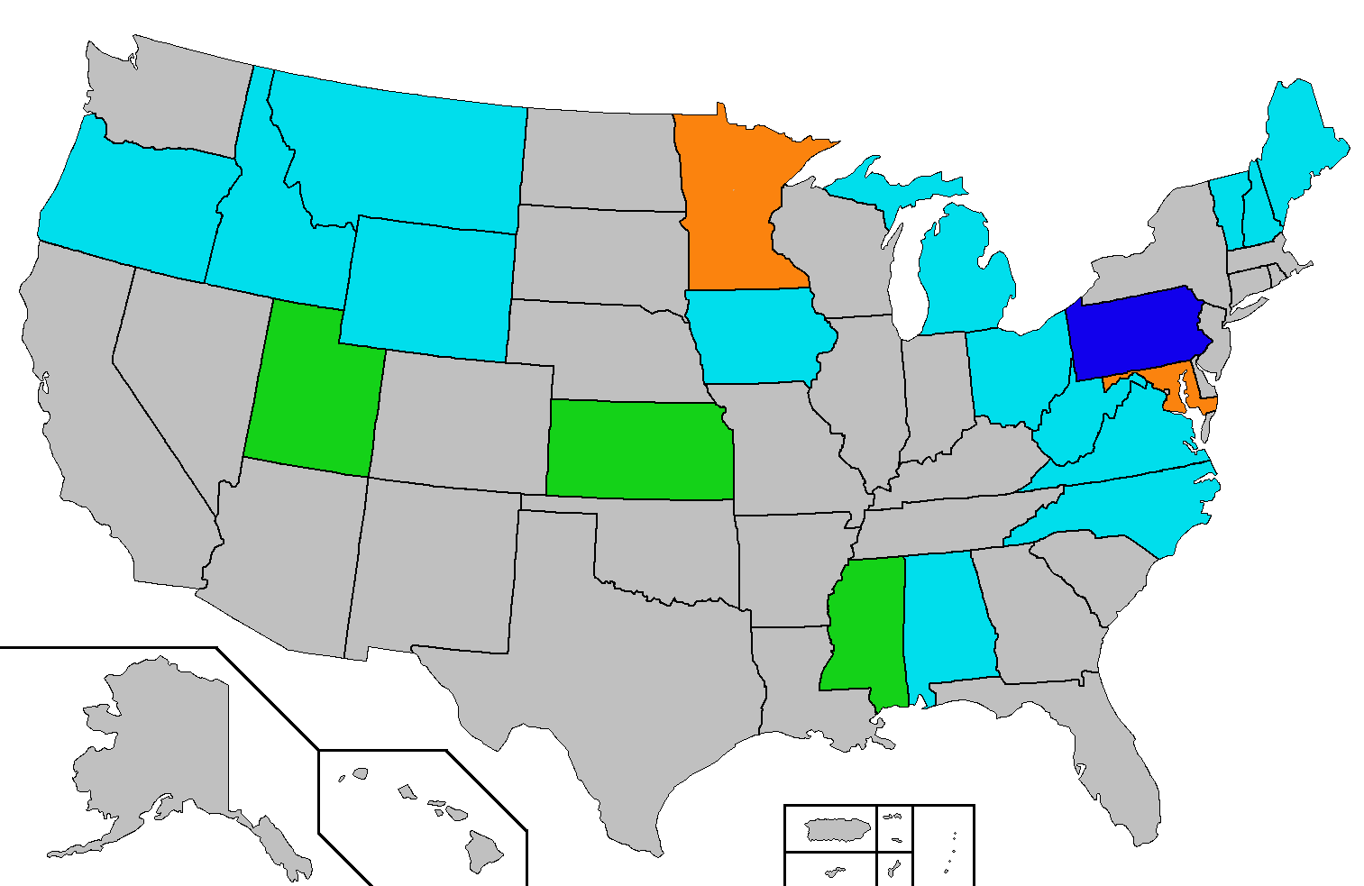 Based on the article alcoholic beverage control state.